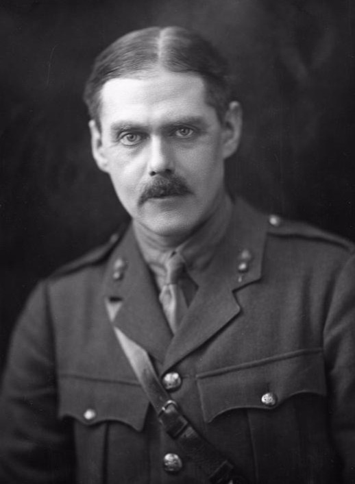 Charles Henry Lyell (1875-1918) in military uniform, photographed in or before February 1918.